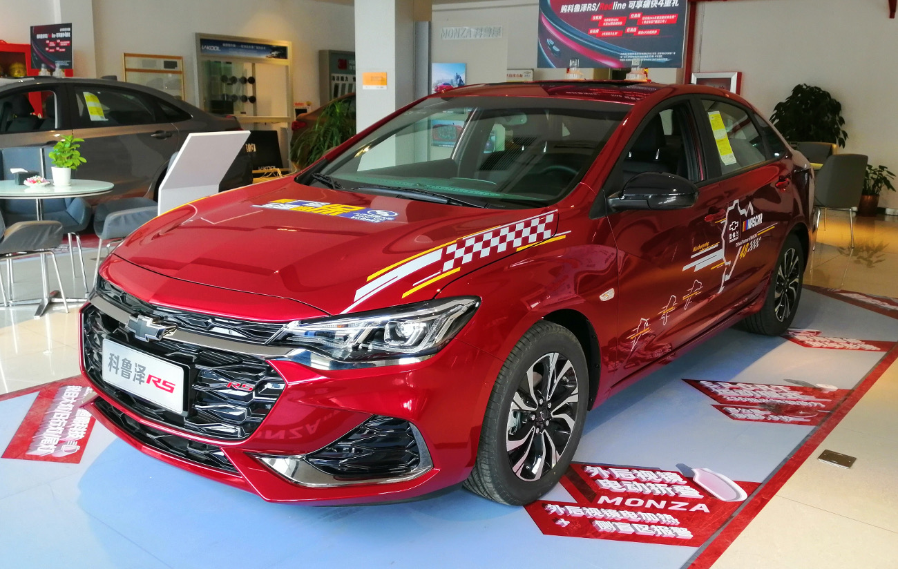 Chevrolet Monza CN RS photographed in Beijing, China.